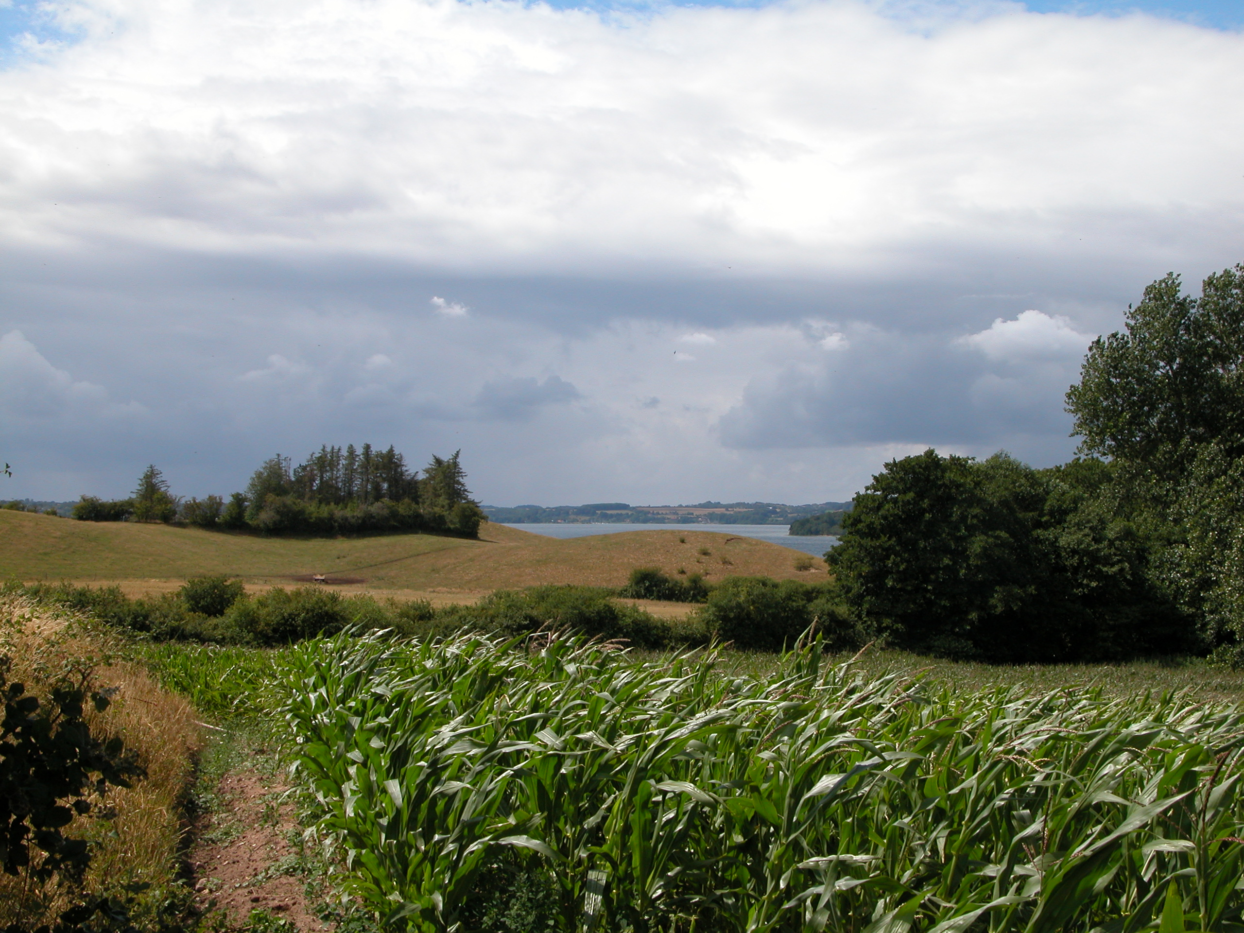 Landscape on island of Barsø - Denmark